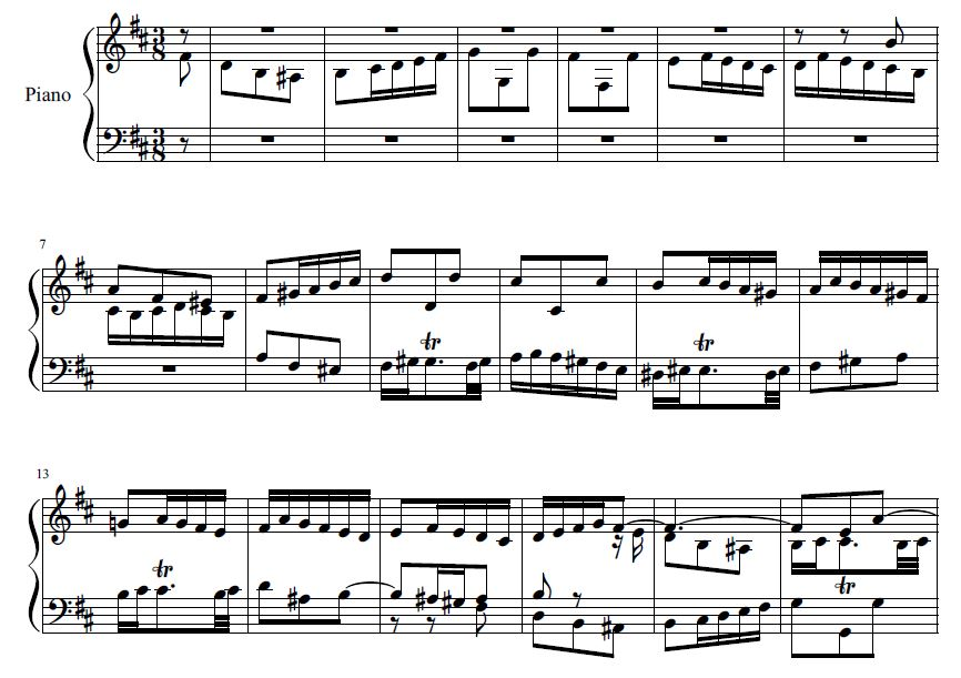 first couple lines of fugue